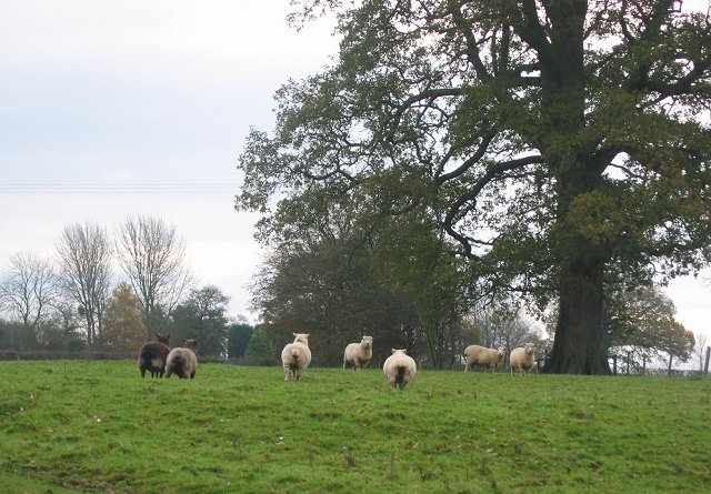 Ryeland Sheep. Field: The Orchard, Court farm. Cider/Perry Orchard grubbed up in the early 1960s. The pears survived slightly longer but have now gone as well. One hedge realigned. Looking East. Both black and white Ryeland sheep, the local breed.